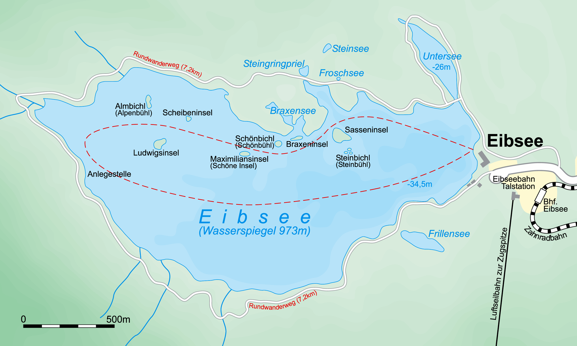 The Eibsee in the north of the Zugspitze